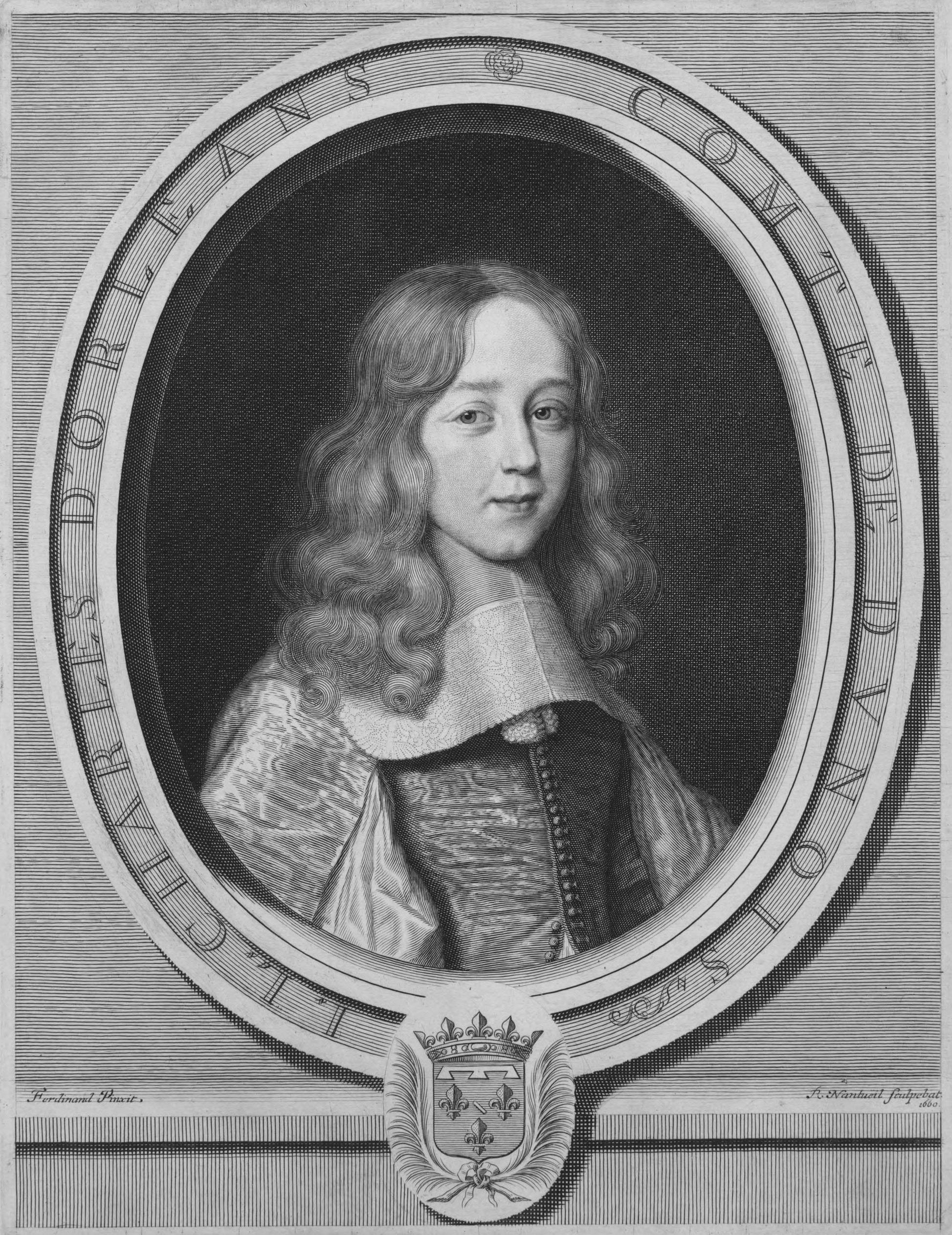 Portrait of Jean Louis Charles d'Orléans (1646-1694), Duke of Longueville)